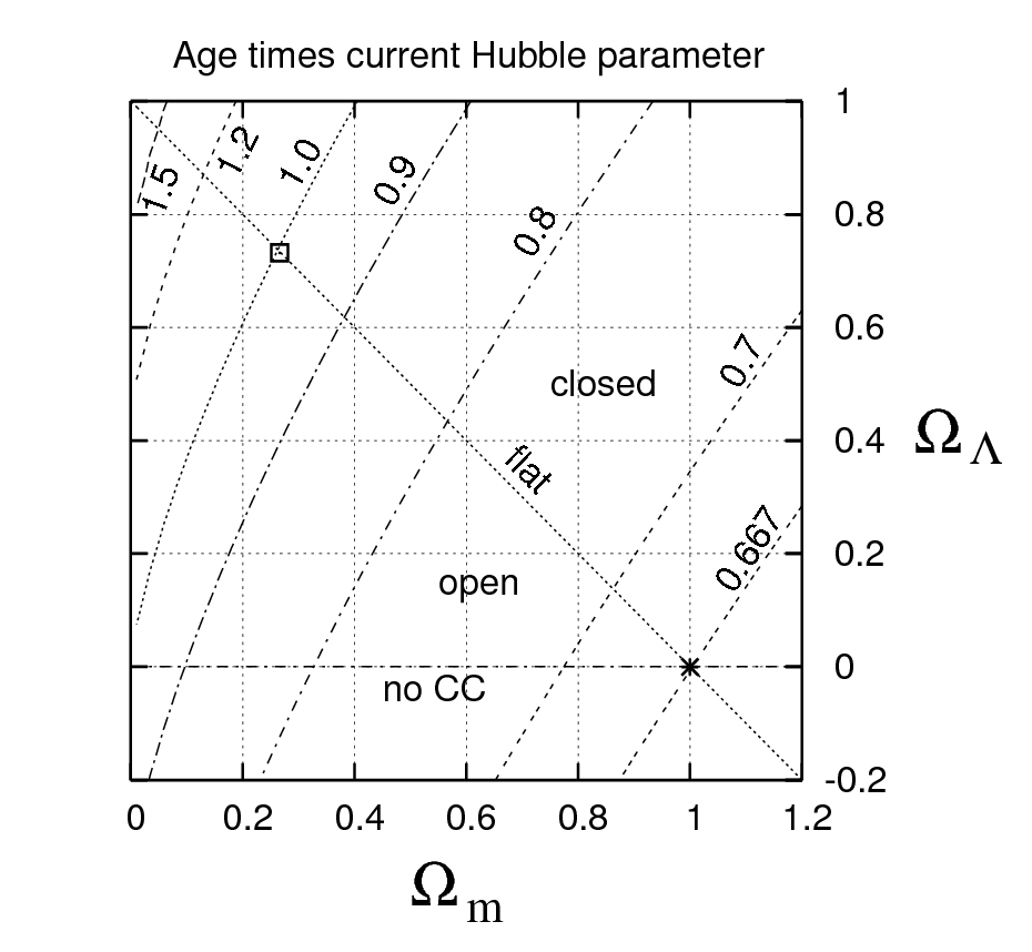 A plot of the age of the universe as a function of some important cosmological parameters. The product of the age and the current Hubble parameter is a function of other cosmological parameters, describing the matter density, cosmological constant density, etc. Contours of this function are plotted as a function of the two most important parameters. The WMAP best-fit value (as of 2006) for these parameters is denoted by a box in the upper left, and the matter-only universe is denoted by an asterix in the lower right. Un dibujo de la edad del Universo como función de algunos parámetros cosmológicos importantes. El producto de la edad y el parámetro de Hubble actual es una función de otros parámetros cosmológicos, describiendo la densidad de materia, la constante de densidad cosmológica, etc. Los contornos de esta función son dibujados como función de los dos parámetros más importantes. El vvalor WMAP más ajustado (hasta 2006) para estos parámetros está denotado por una caja en la esquina superior izquierda y la materia aislada se denota por un asterisco en la parte inferior derecha. Esta imagen fue generada por Wesino y el código relevante se puede encontrar en la página de usuario de Wesino.